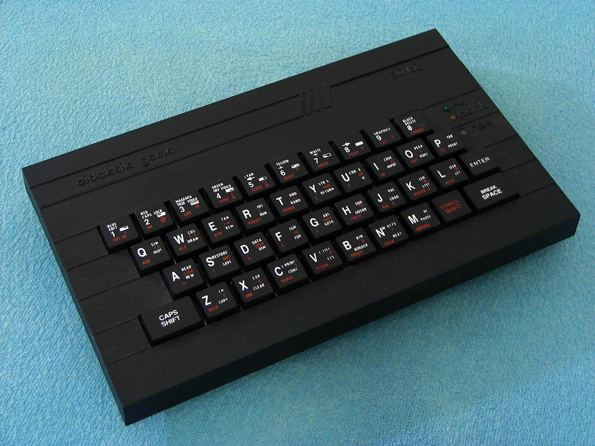 Didaktik Gama - clone of ZX Spectrum produced in Czechoslovakia before 1989.